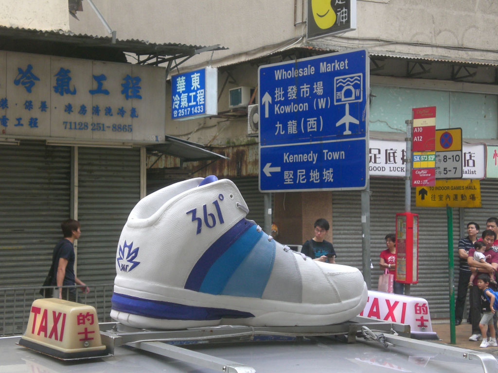 zh:361度